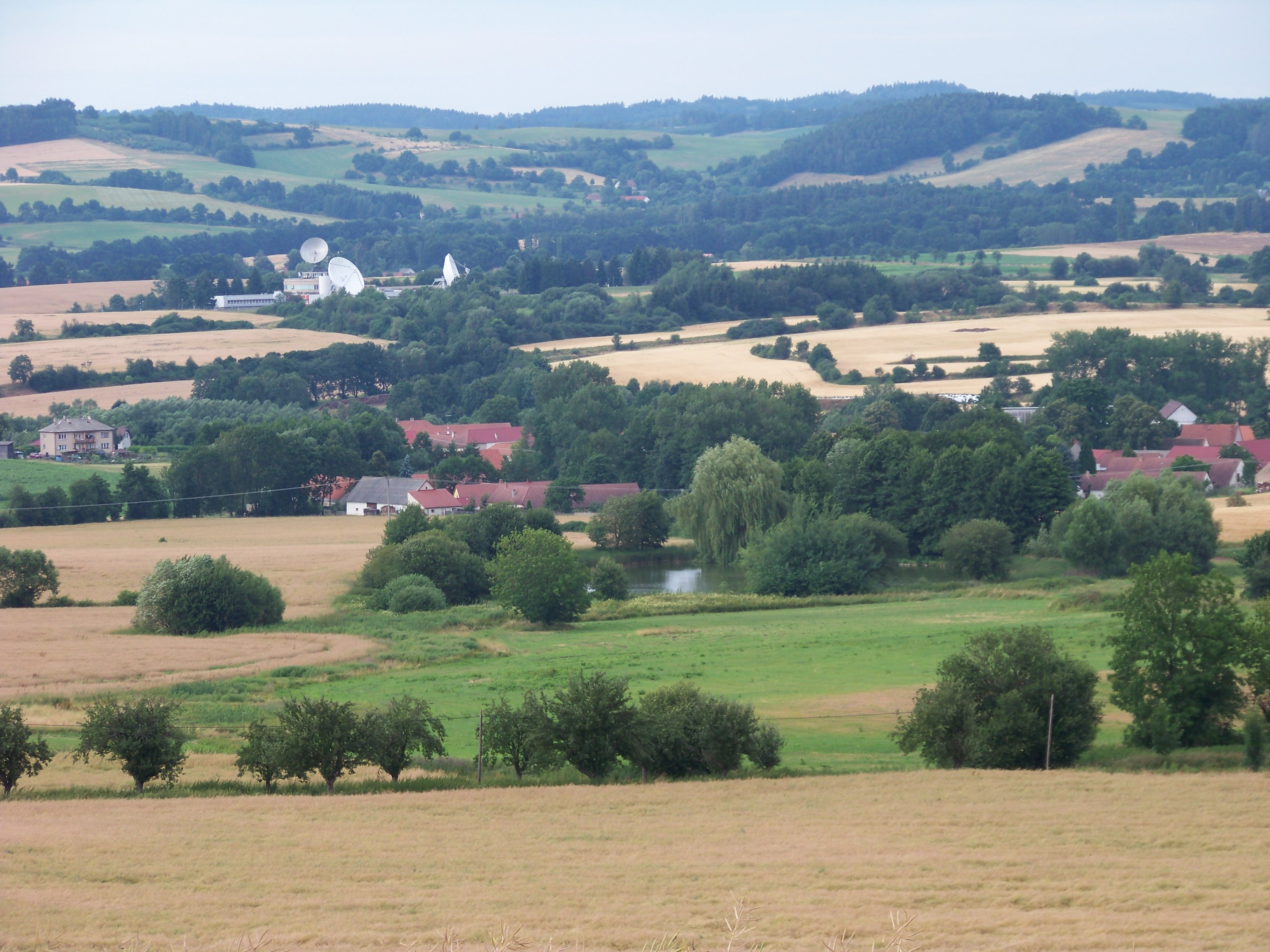 Sedlec-Prčice-Měšetice, Příbram District, Central Bohemian Region, the Czech Republic. Radiocommunication centre.